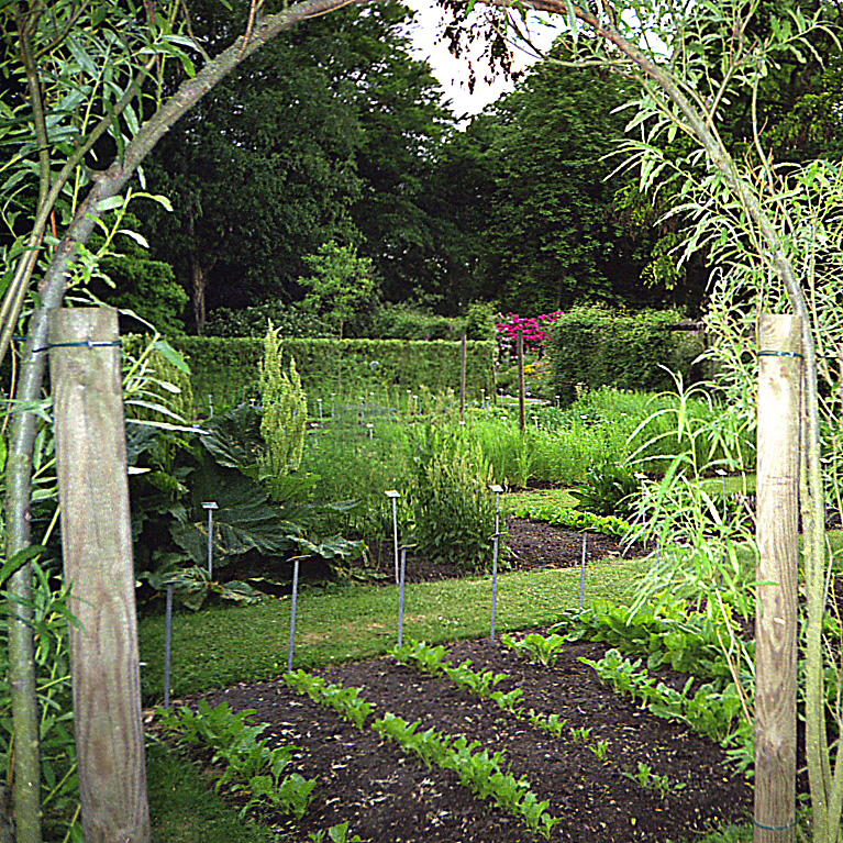 Kitchen garden in Botanical gardens Lund